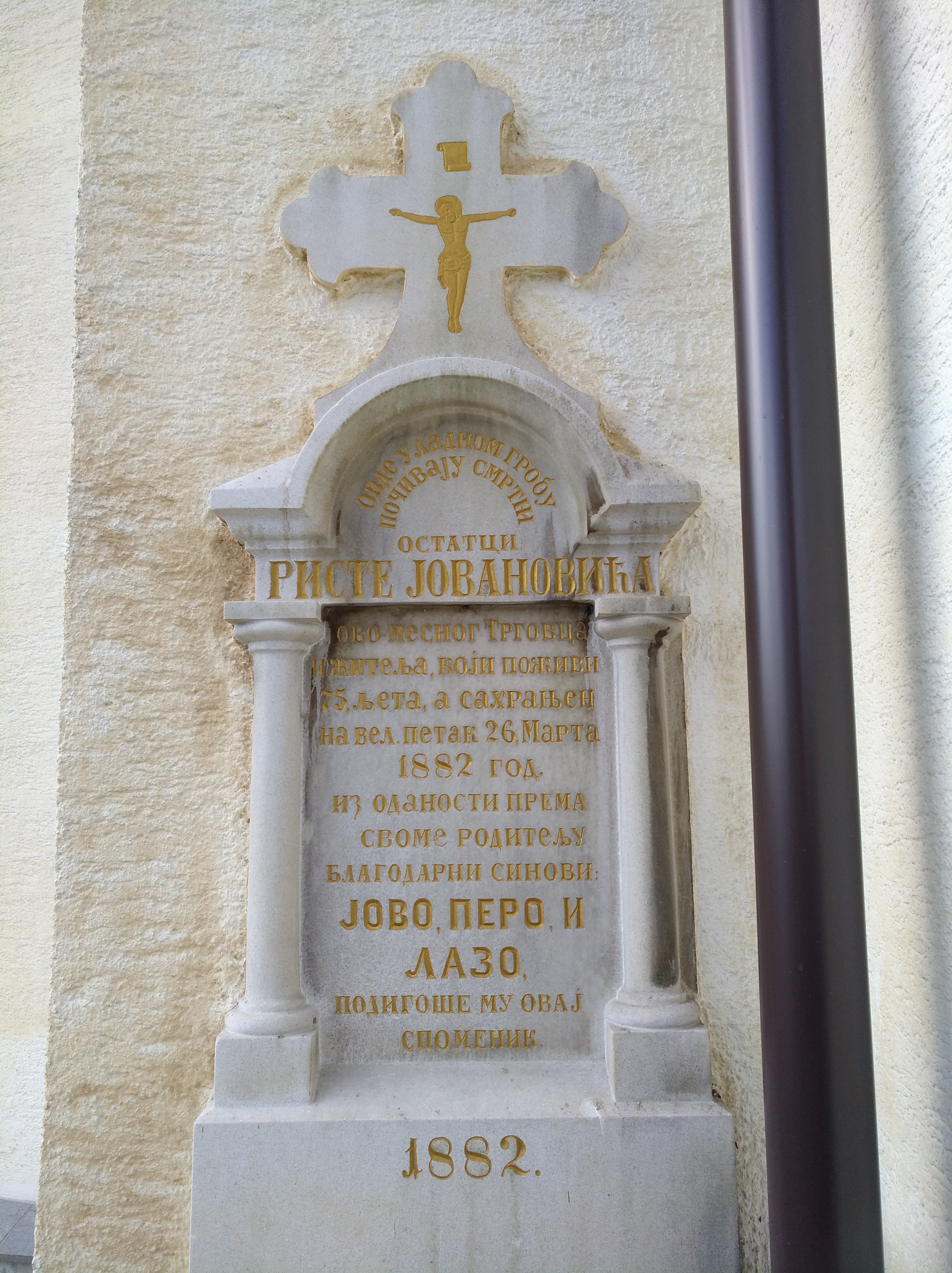 Grave in Saint George Serbian Orthodox church in Tuzla, Bosnia and Herzegovina.